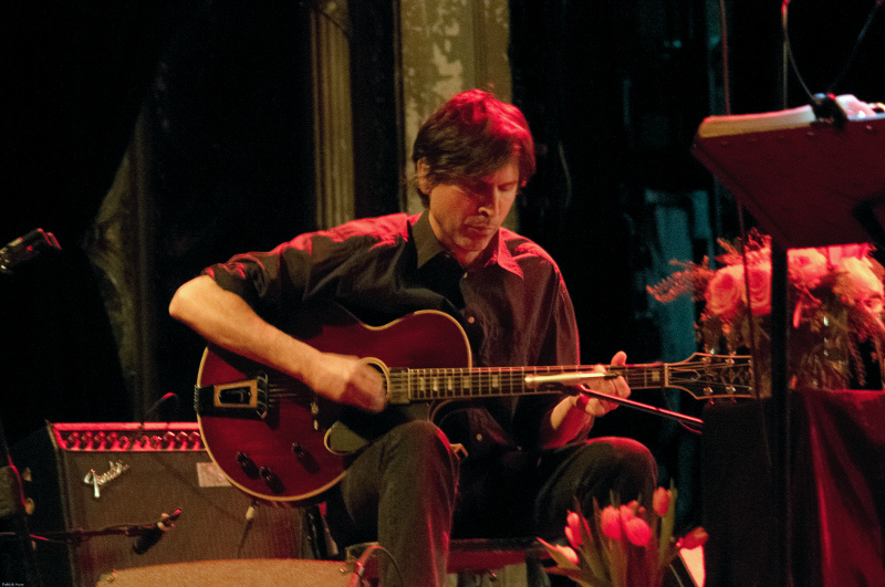 Guitarist Michael Timmins in concert with Cowboy Junkies at Keswick Theatre, March 9 2012